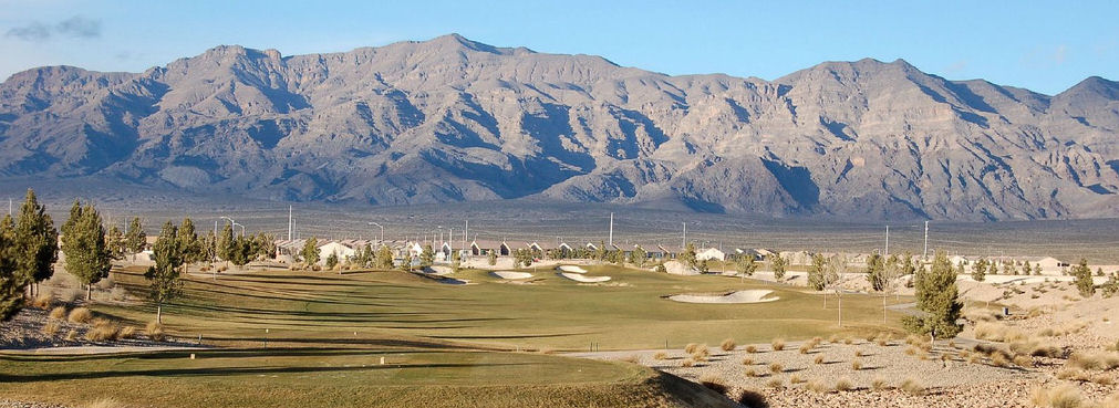 The southern section of the Las Vegas Range, and the Aliante Golf Club in the Las Vegas Valley — in Clark County, southern Nevada. The highest point of the range is Gass Peak at 6,943 feet (2,116 m) (left-center in photo). The range has a long north-south ridgeline-(lower in elevation), with the southern end forming a massif, probably caused by the same transform (strike/slip) fault that created Red Rock Park west of Las Vegas, and causing the uplift of Mount Charleston, (with its seabed fossils).